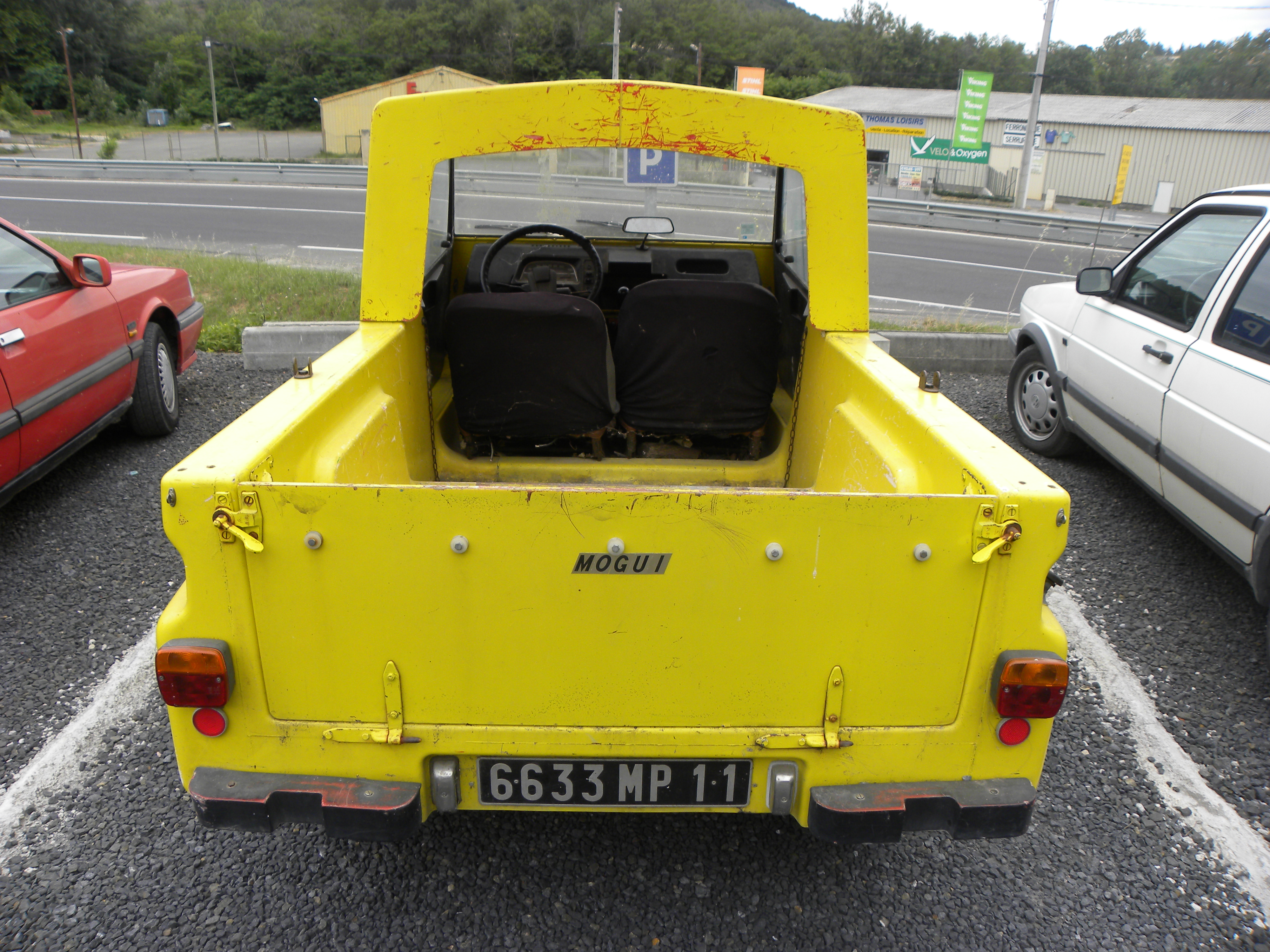 Early (1976-87?) Fredcar (fr).